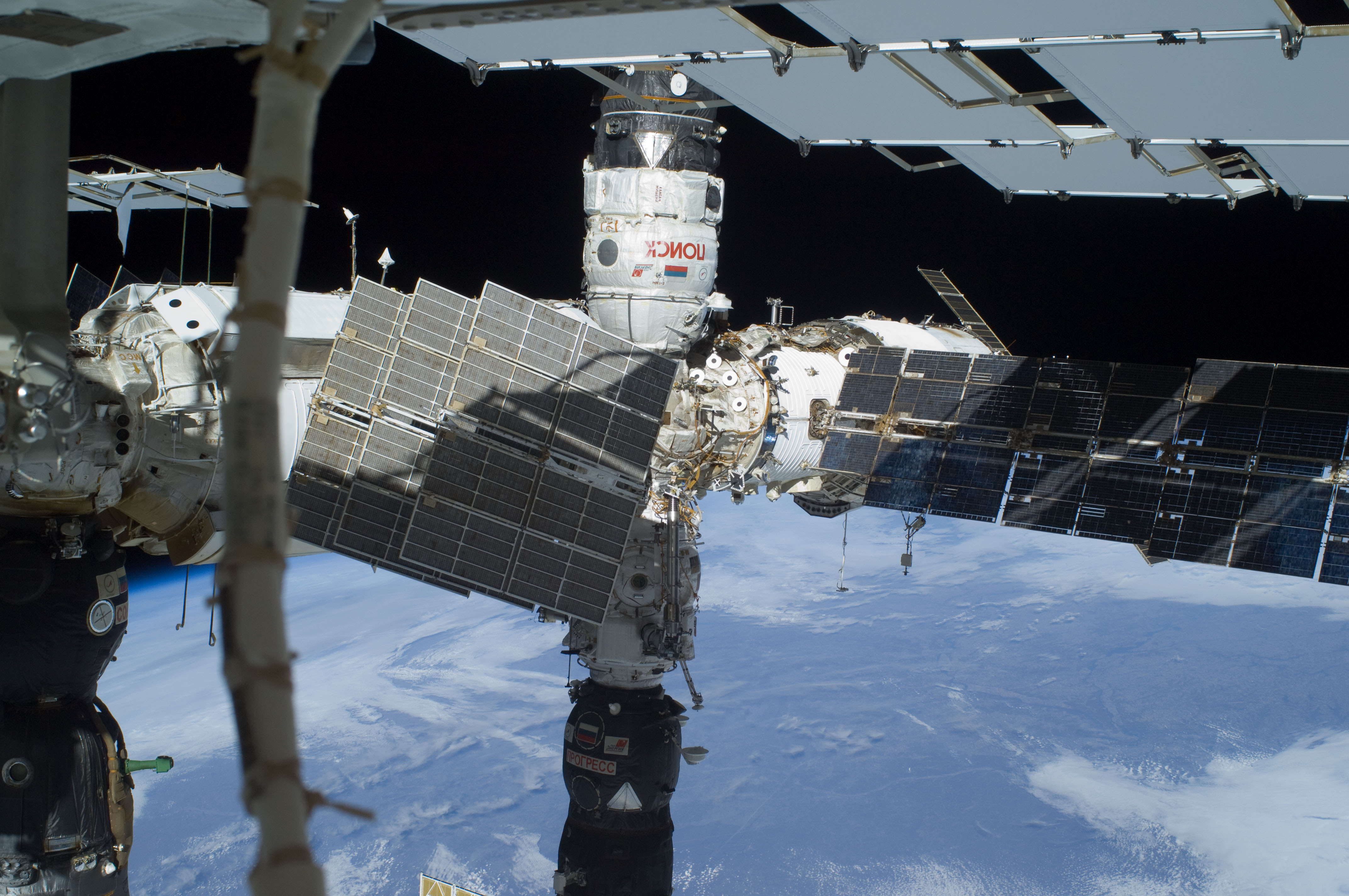 The Russian segment of the International Space Station is featured in this image photographed by a space-walking astronaut during the third and final spacewalk for the STS-129 mission. The Poisk Mini Research Module 2 (MRM2), docked to the space-facing port of the Zvezda Service Module, is at top center; and a Progress resupply vehicle is docked to the Pirs Docking Compartment at bottom center. Zarya (partially obscured by solar panels) is at right center. Earth's horizon and the blackness of space provide the backdrop for the scene.